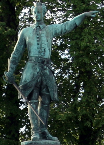 Statue of Charles XII of Sweden at Karl XII:s torg, Stockholm, Sweden.